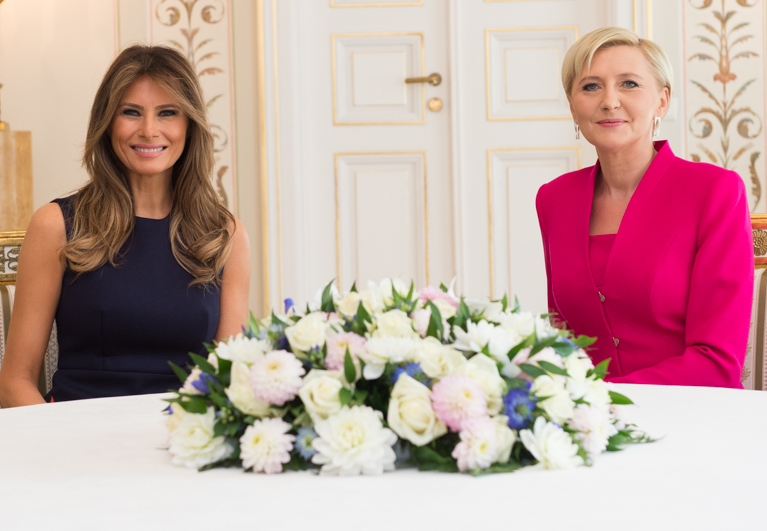 First Lady Melania Trump and First Lady Agata Kornhauser-Duda | July 6, 2017 (Official White House Photo by Andrea Hanks)